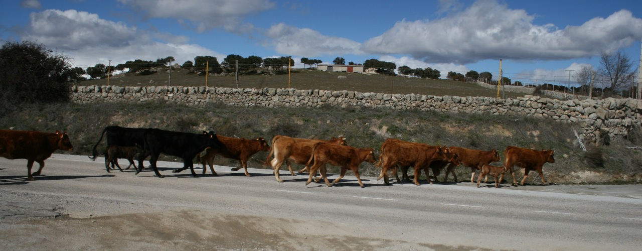 Cows crossing a cañada near Colmenar Viejo, Madrid, Spain